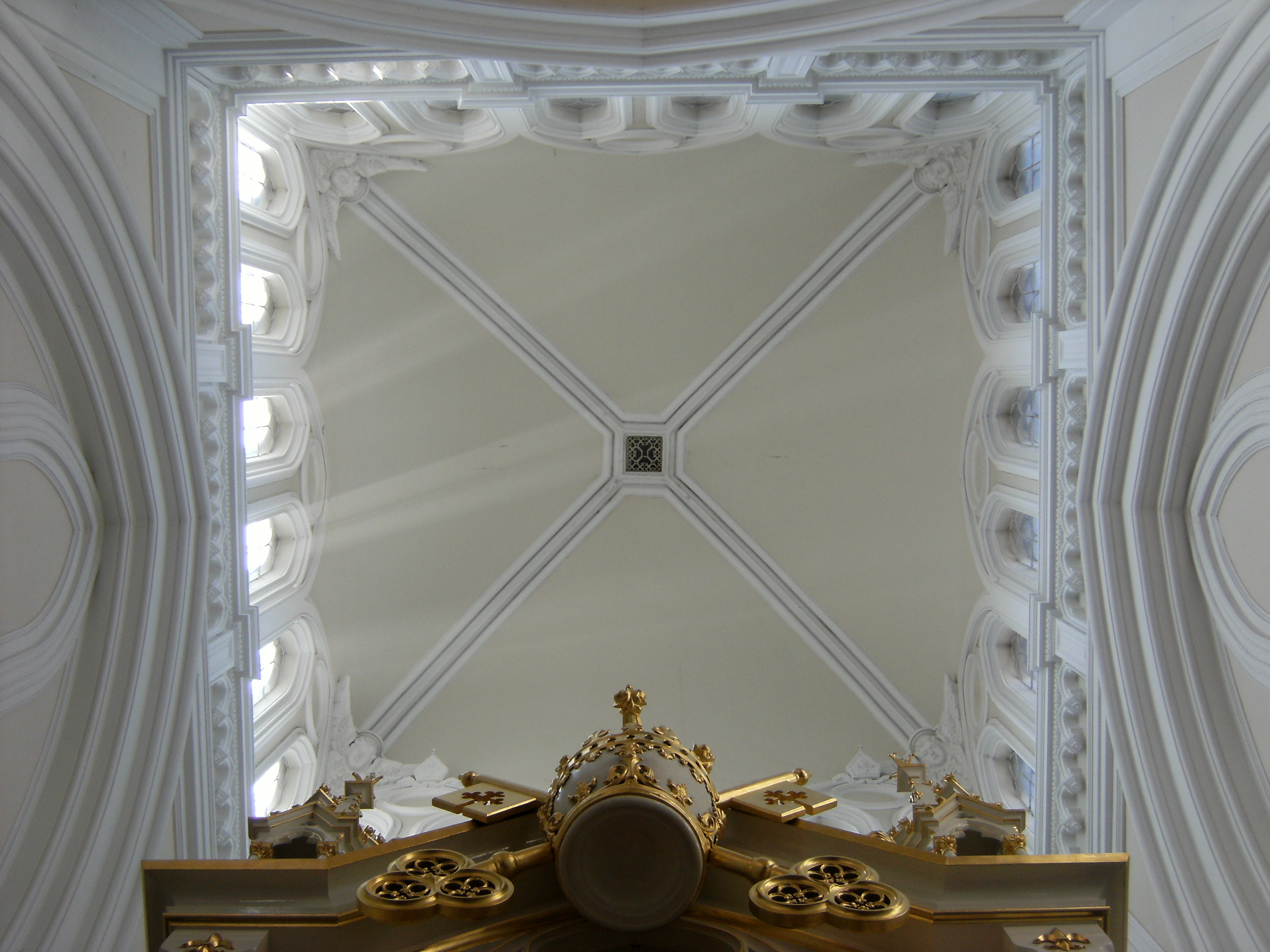 Old Catholic Mariavite Temple of Mercy and Charity in Plock